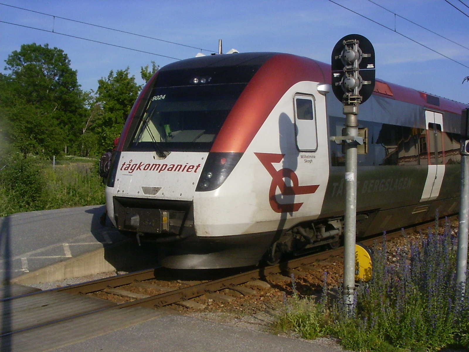 X51 electric multiple unit of Tågkompaniet, number 9024, former 3258, named Wilhelmina Skogh, at Hallstahammar station